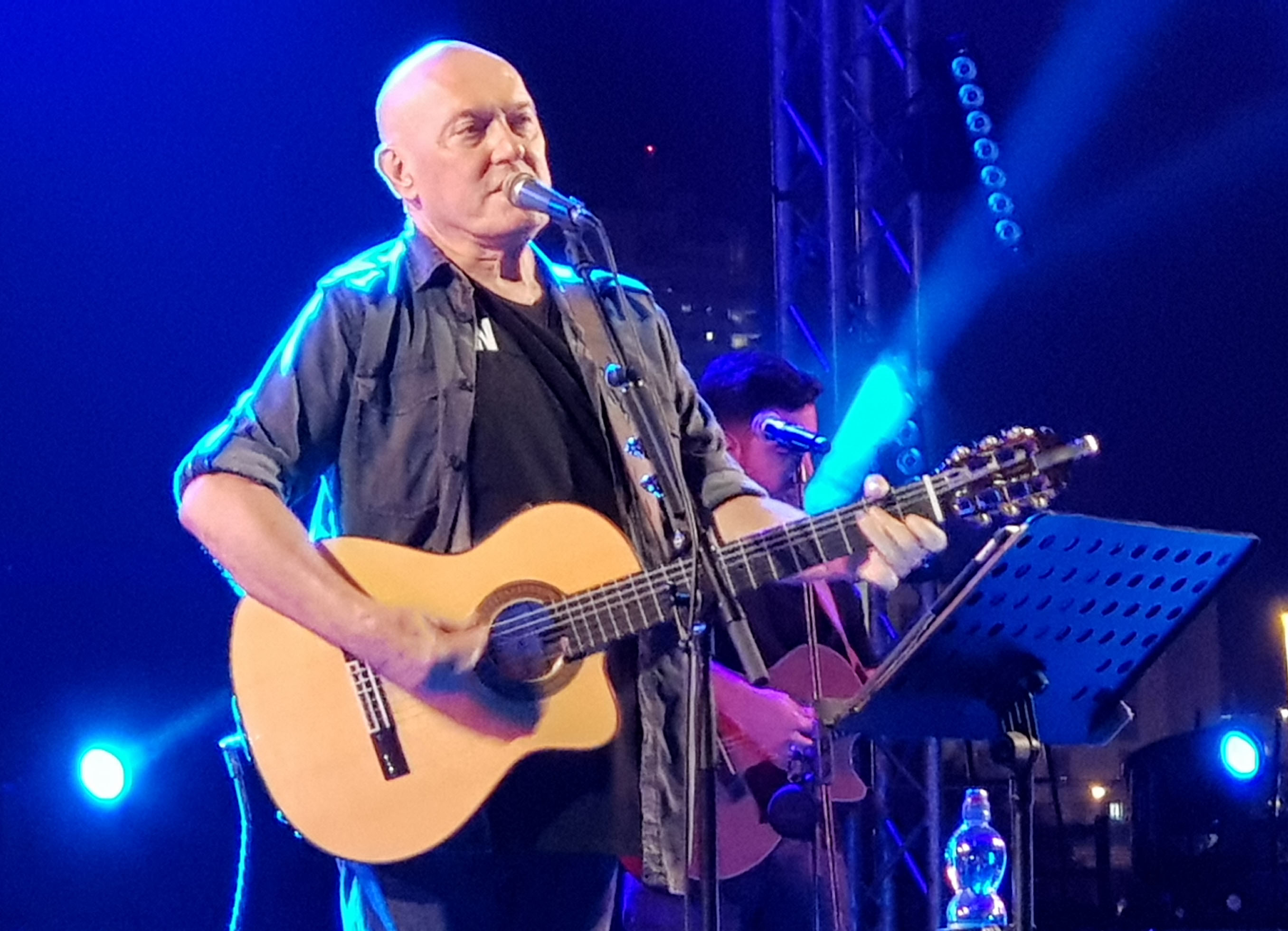 Israeli singer Shlomi Shabat, September 2018